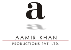 The present banner of Aamir Khan Productions